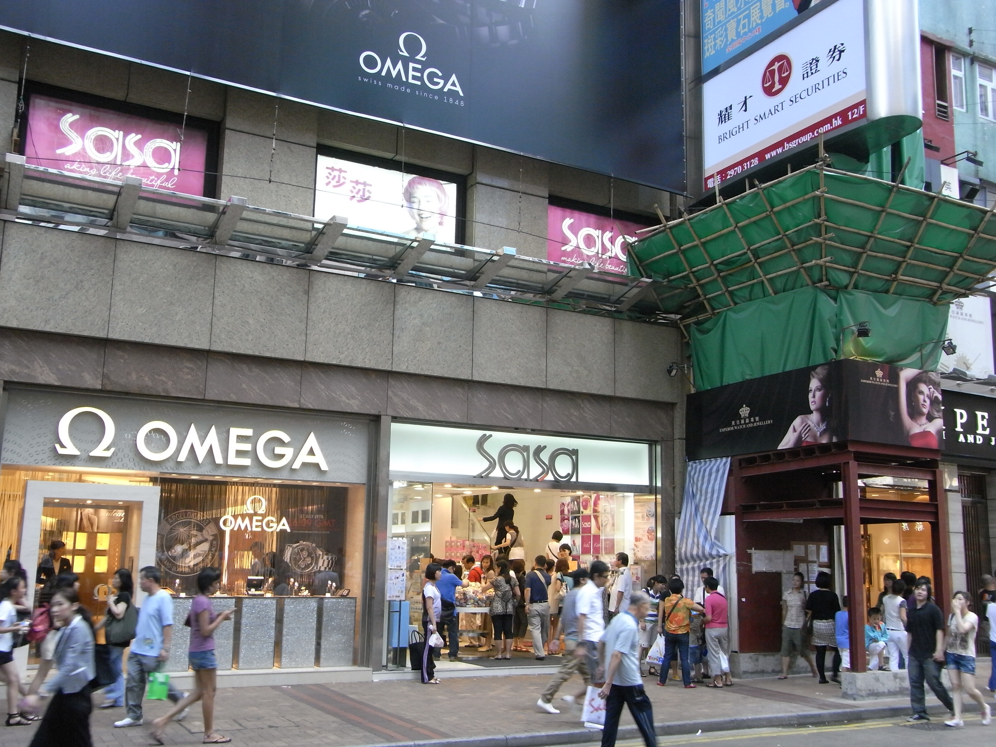 銅鑼灣羅素街, 近香港時代廣場 金朝陽中心